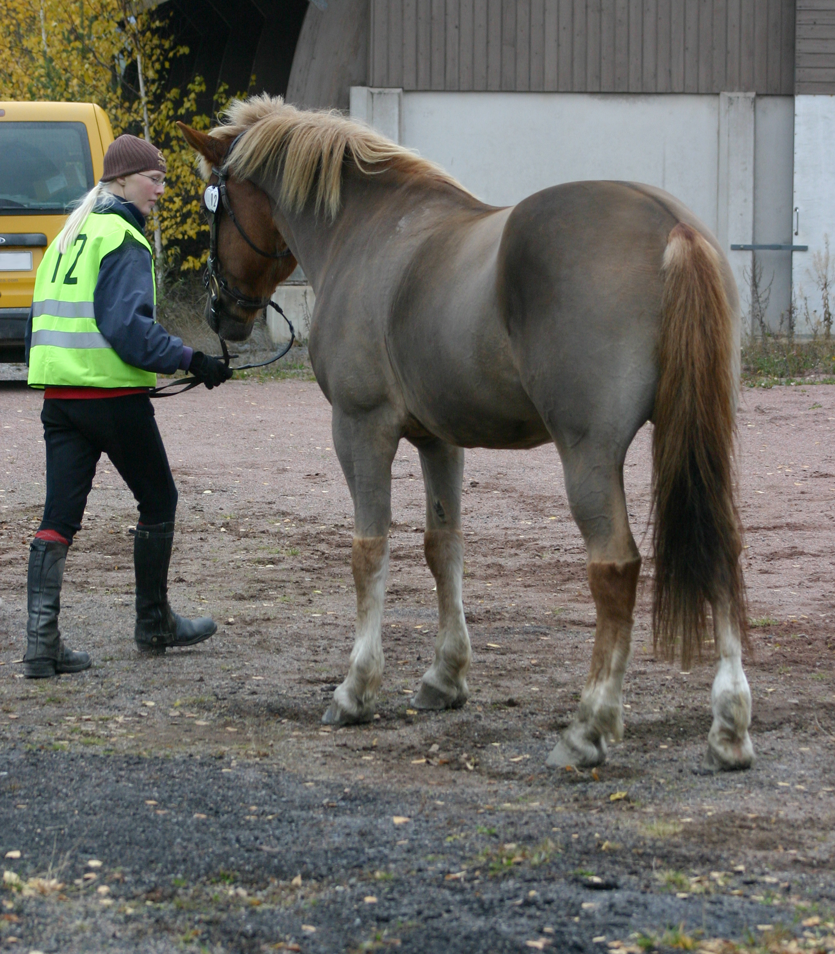 A bodyclipped Finnhorse, exhibits an eel stripe with a definitely non-dun colouration.